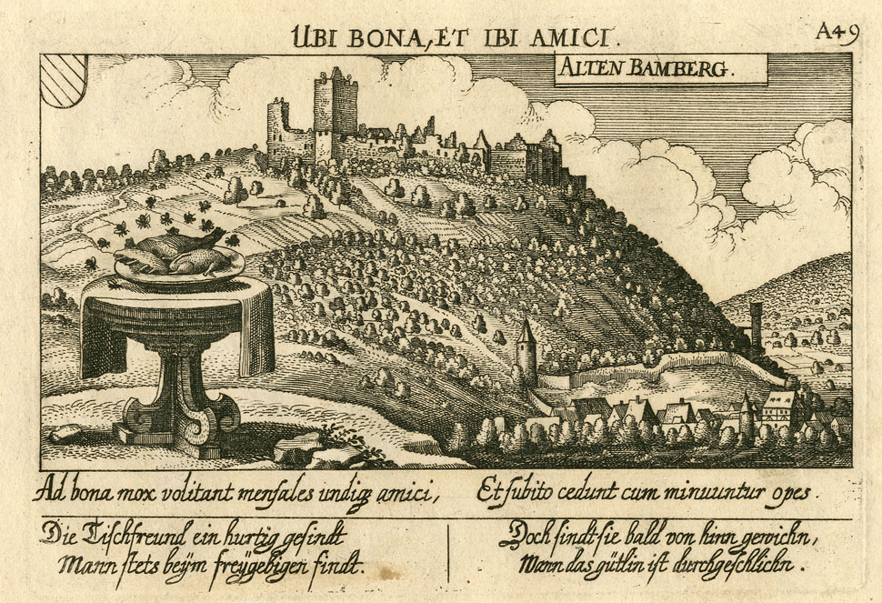 The village of Altenbamberg in the Palatinate with Castle Altenbaumburg looming over it